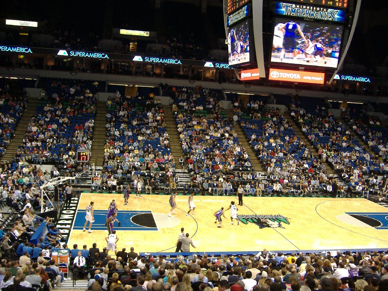 A Minnesota Timberwolves game at Target Center.